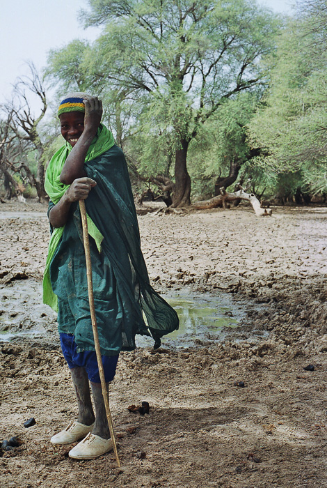 Young shepherd - Kayes region